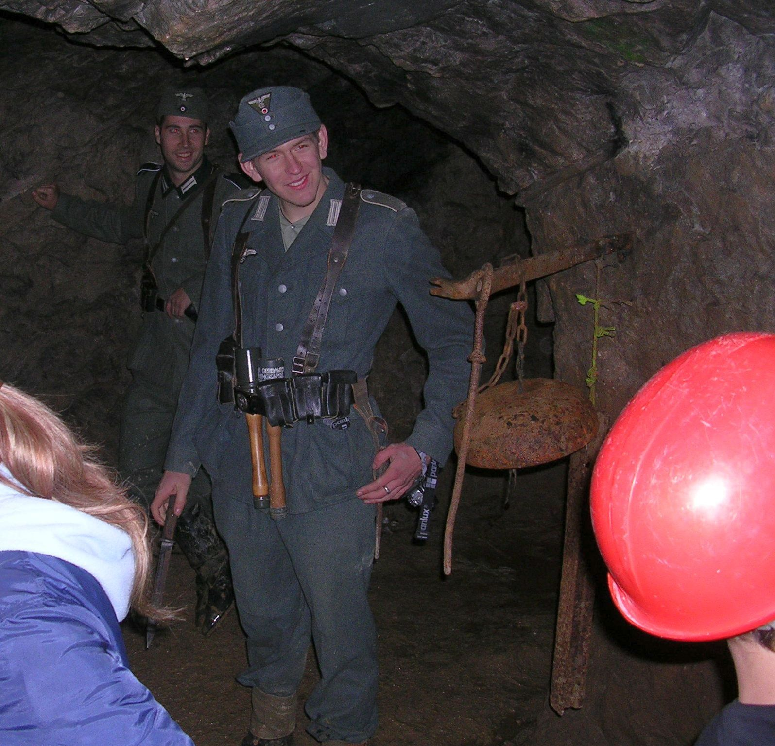 Karlštejn, Beroun District, Central Bohemian Region, the Czech Republic. A visiting day in a quarry tunnel. People simulated the fabled soldier Hagen, which is known as a local ghost.